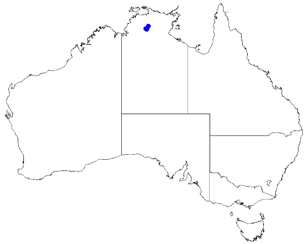 Boronia tolerans downloaded from Australasian Virtual Herbarium 10 April 2019 using This download included all the environmental overlay fields and ALA's data checking fields including "cultivated / escapee", "outside expert range for species", "latitude is negated", "coordinates are transposed", "taxon misidentified", "habitat incorrect for species", and "suspected outlier" (711 fields). Deleting occurrences for which any of the above were true, 46 specimens with coordinates were deleted.